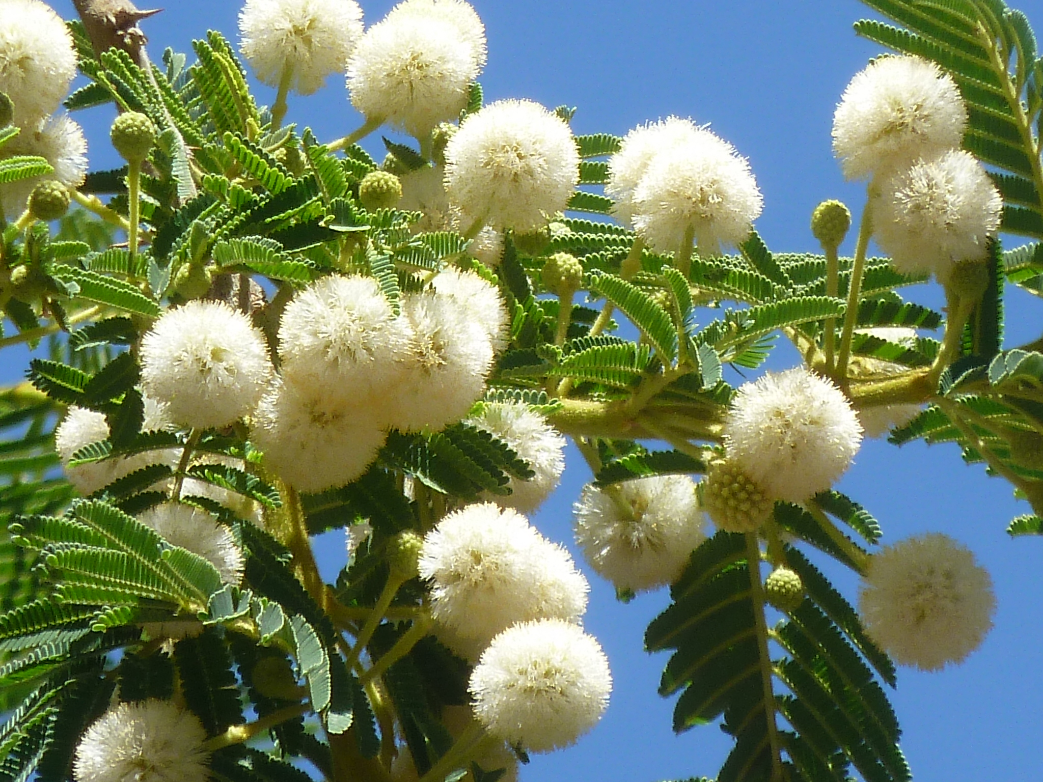 Creamy-white, spherical flower heads of a Paperbark acacia in suburban Pretoria, South Africa